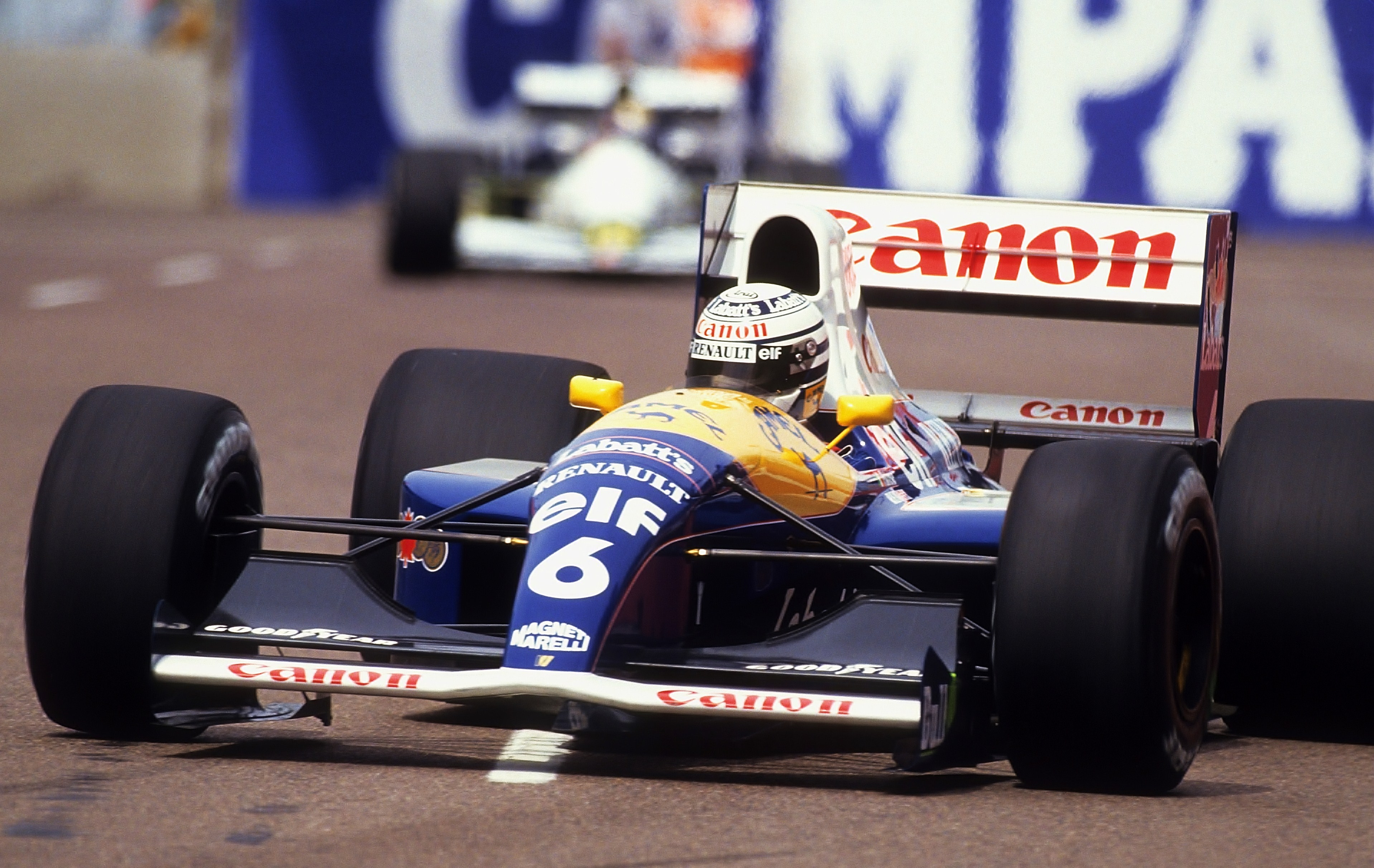 Riccardo Patrese (Williams) at the 1991 United States Grand Prix, Phoenix